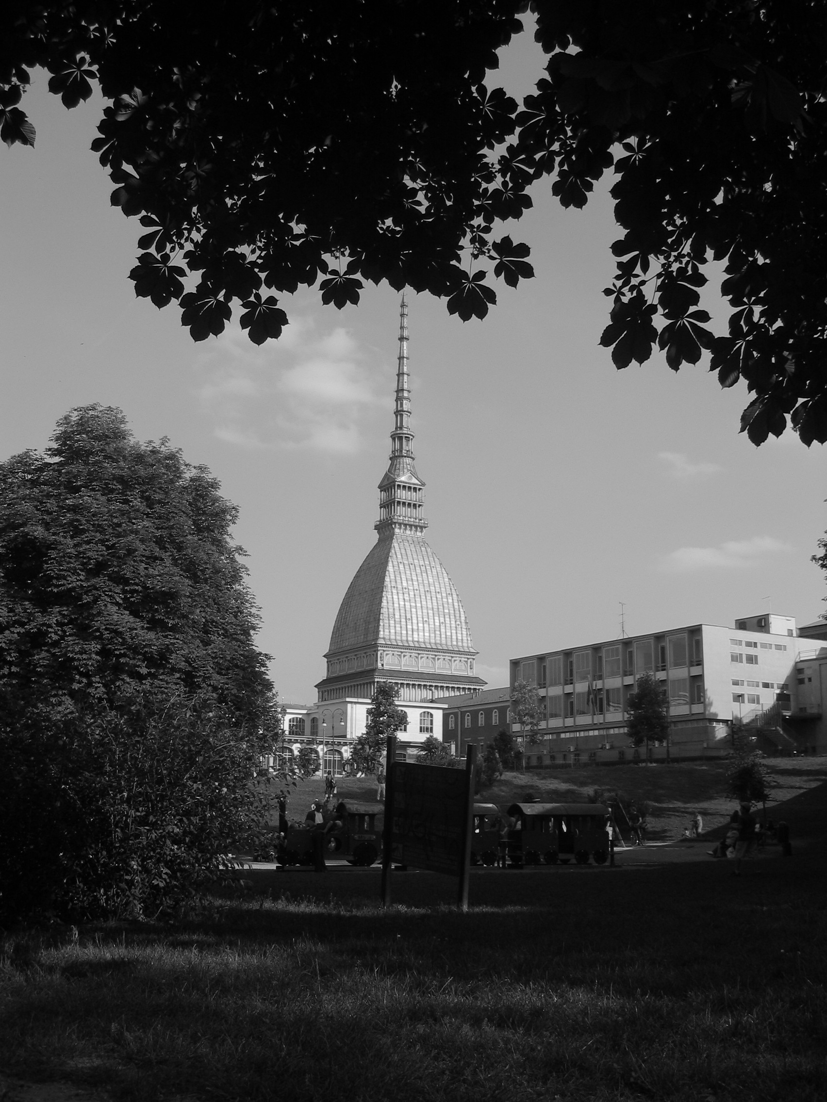 Mole Antonelliana, Turin (Italy)